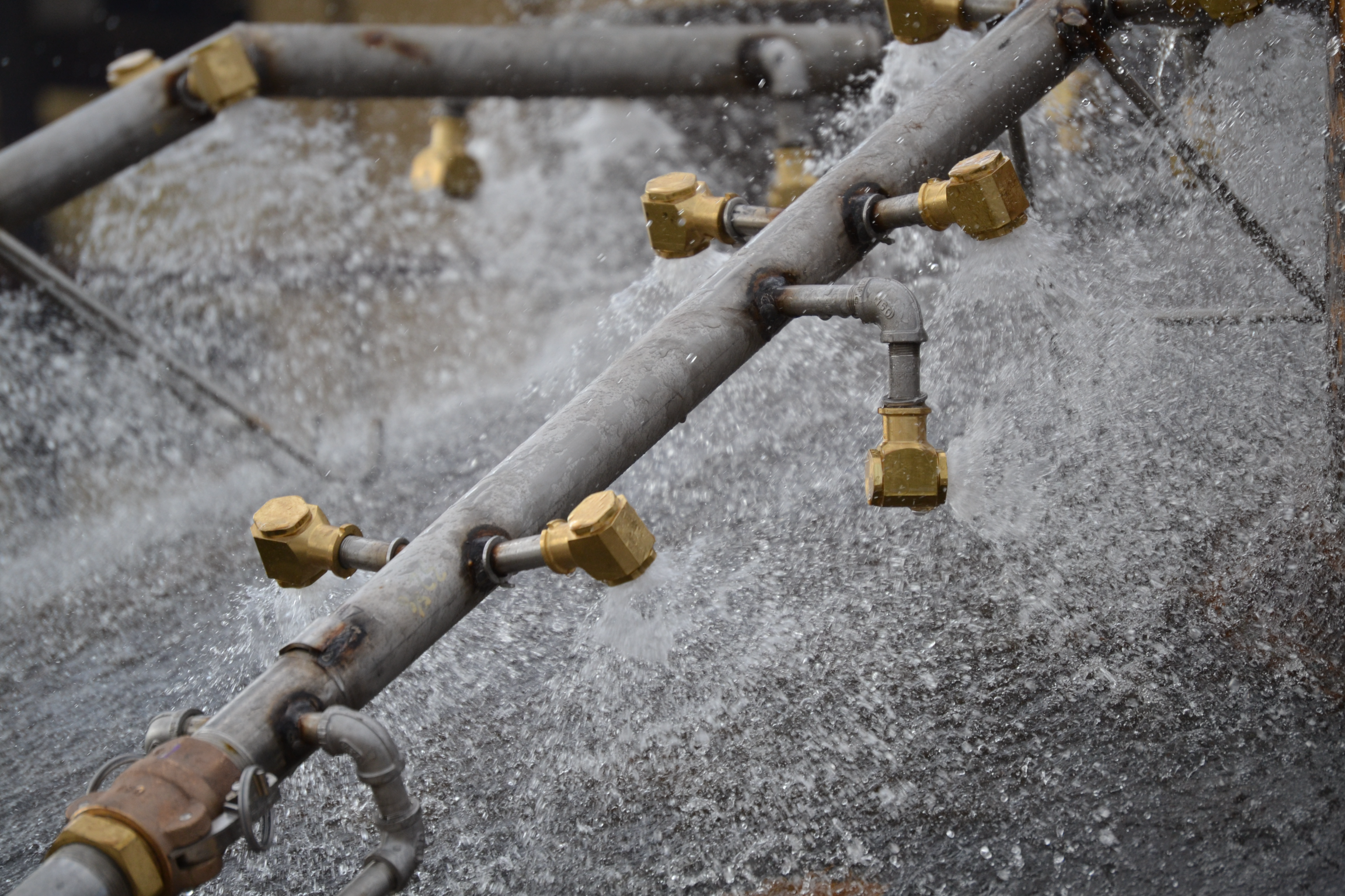 Non-pressurized cooling systems for steel making furnaces